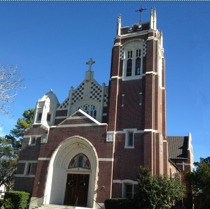 This image is the exterior of the church taken from State St.